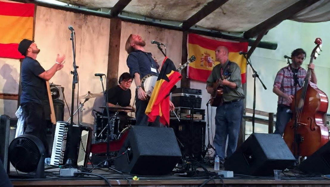 Celebrating the 450th Festival September 5th, 2015 in St. Augustine, FL.